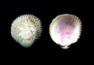 Trachicardium muricatum (Bivalvia: Veneroida: Cardiidae) ~ Dallocardia muricata de Isla La Tortuga Dependnecias Federales - Venezuela. World Register of Marine Species link: Trachycardium muricatum (Linnaeus, 1758) Invalid World Register of Marine Species link: Dallocardia muricata (Linnaeus, 1758)